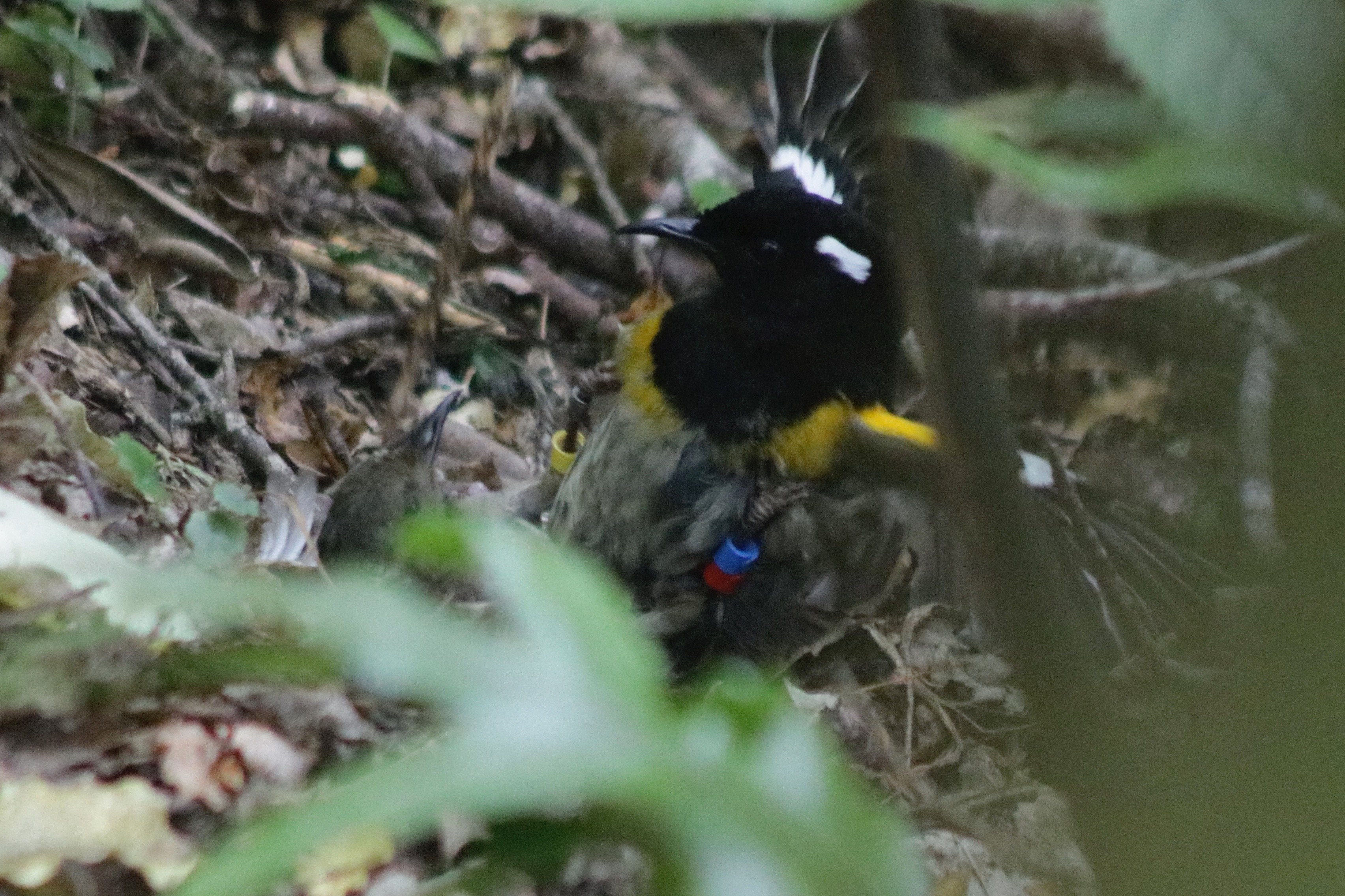 Hihi (Notiomystis cincta, stitchbird) are the only bird known to mate face-to-face. This is believed to be more common when the male is not the female's regular mating as standard (male on top) mating also occurs. Not often photographed as hihi are rare, but captured here at Zealandia Ecosanctuary, Wellington where there is a translocated population.